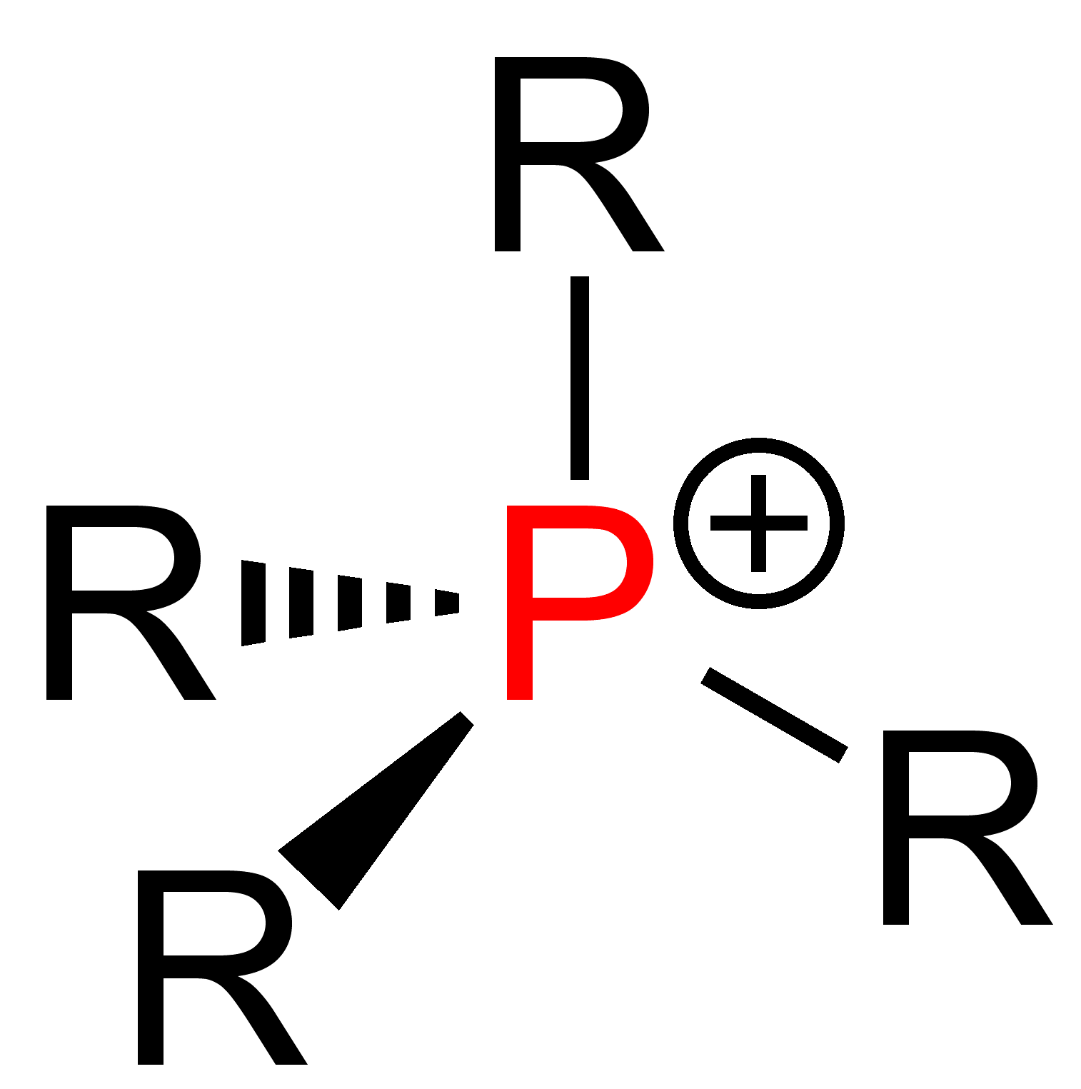 Quart._Phosphonium_Cation_Structural_Formulae